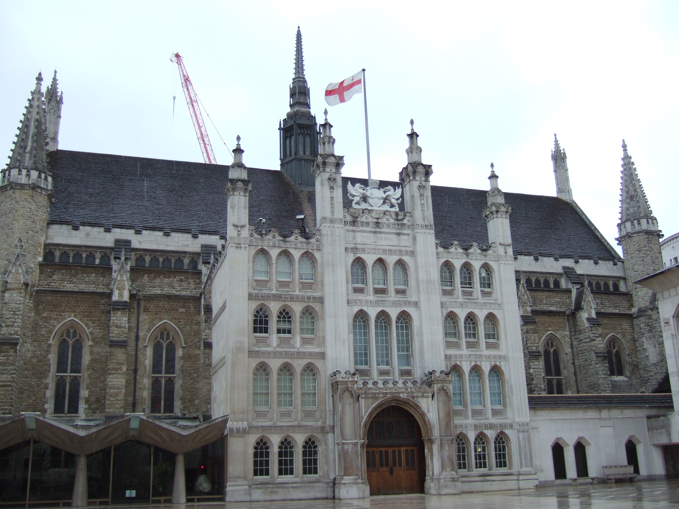 The Guildhall, City of London